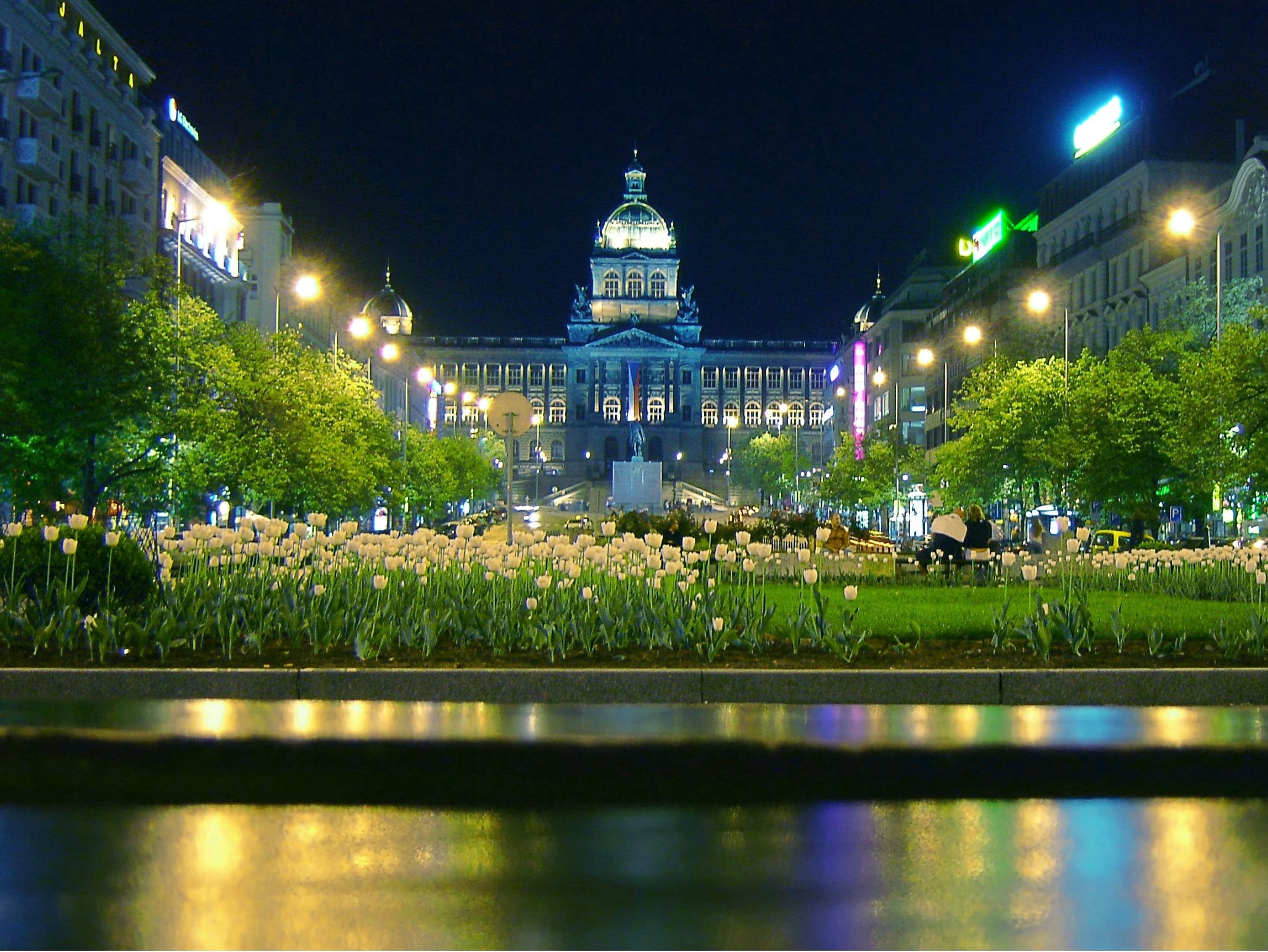 Night View of Wenceslas Square and National Museum, Prague